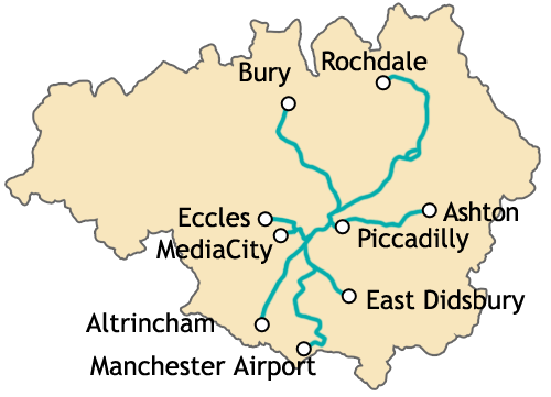 Outline diagram of the full Metrolink network once all the planned extension phases have been completed